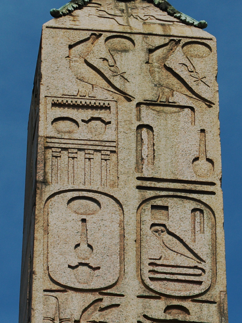 Detail of obelisk at campus martius